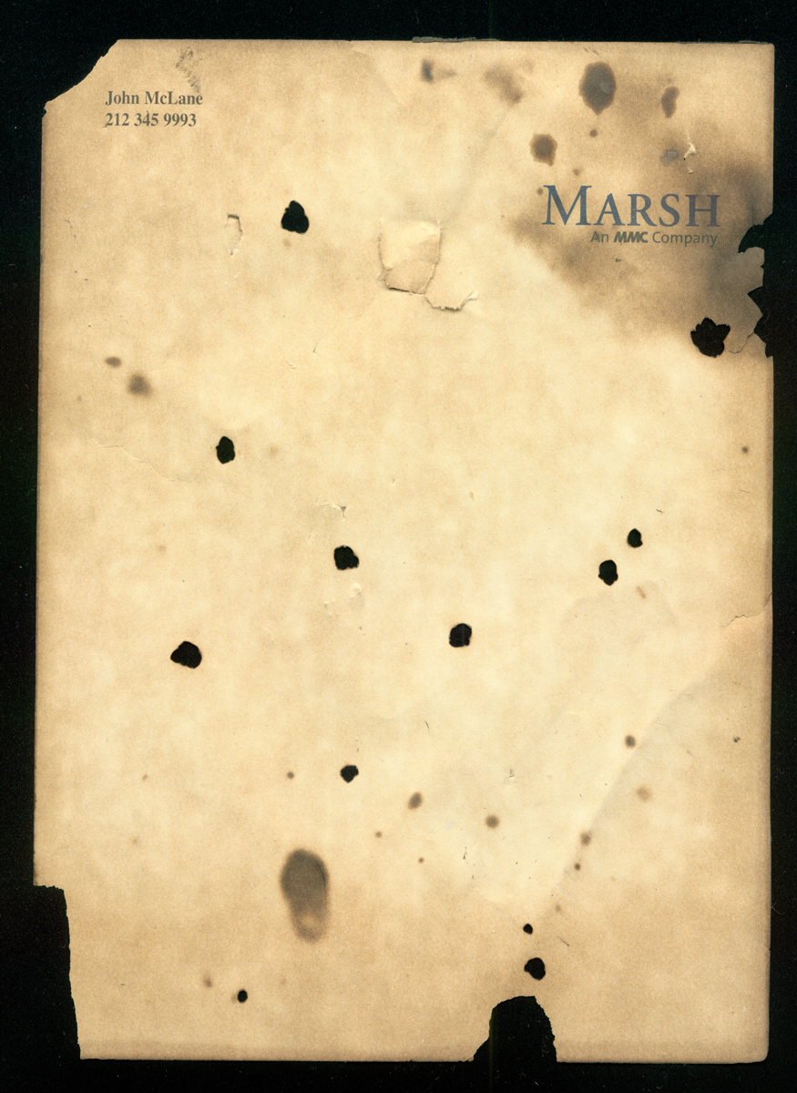 This piece of charred stationary fell into our yard following the attacks. For over a year afterwards I searched the lists of the victims, and, thank God, Mr. McLane's name never appeared. Update: I have since gotten in contact with Mr. McLane via email. He recounted to me the horror of losing so many of his good friends and colleagues on this terrible day.